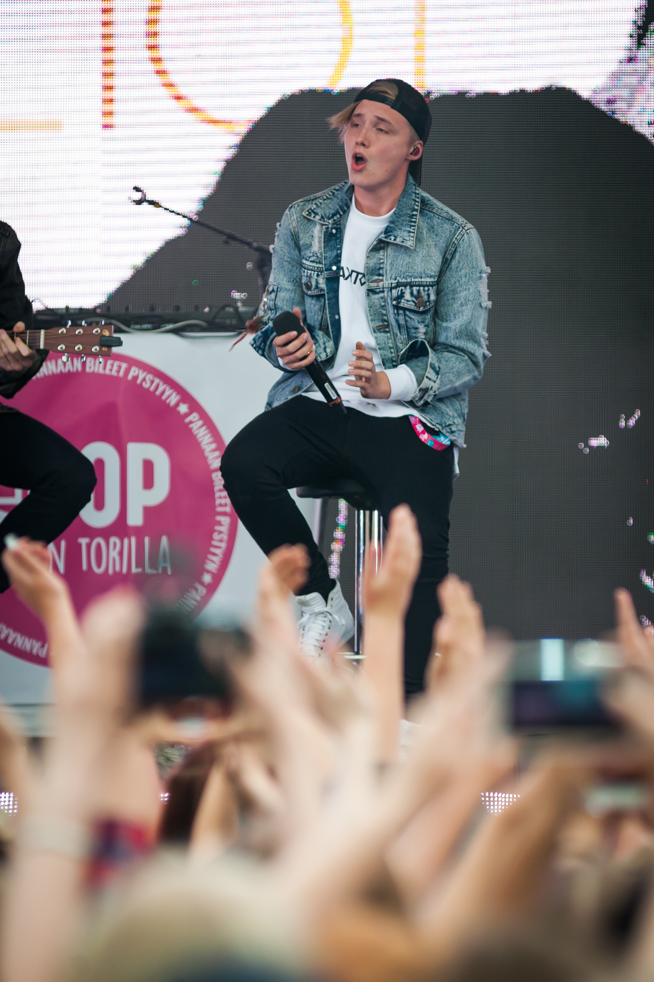 Finnish vocalist Isac Elliot performing at YleXPop event in Lahti, Finland on the 4th of June, 2016.